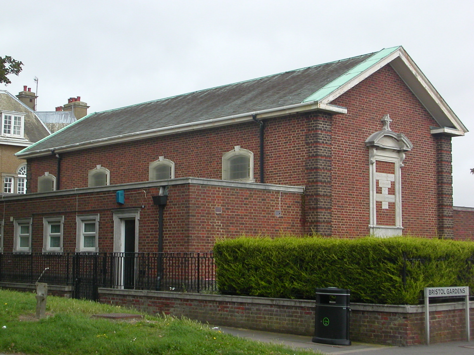 St Benedict's Chapel, junction of Manor Road and Bristol Gardens, Kemptown, Brighton, England. Chapel belonging to the Grace and Compassion Benedictines, a community of Benedictine nuns founded in 1954. The chapel is within the parish of St John the Baptist's Church. (2019 update: closed by early 2009 and demolished in early 2015.)